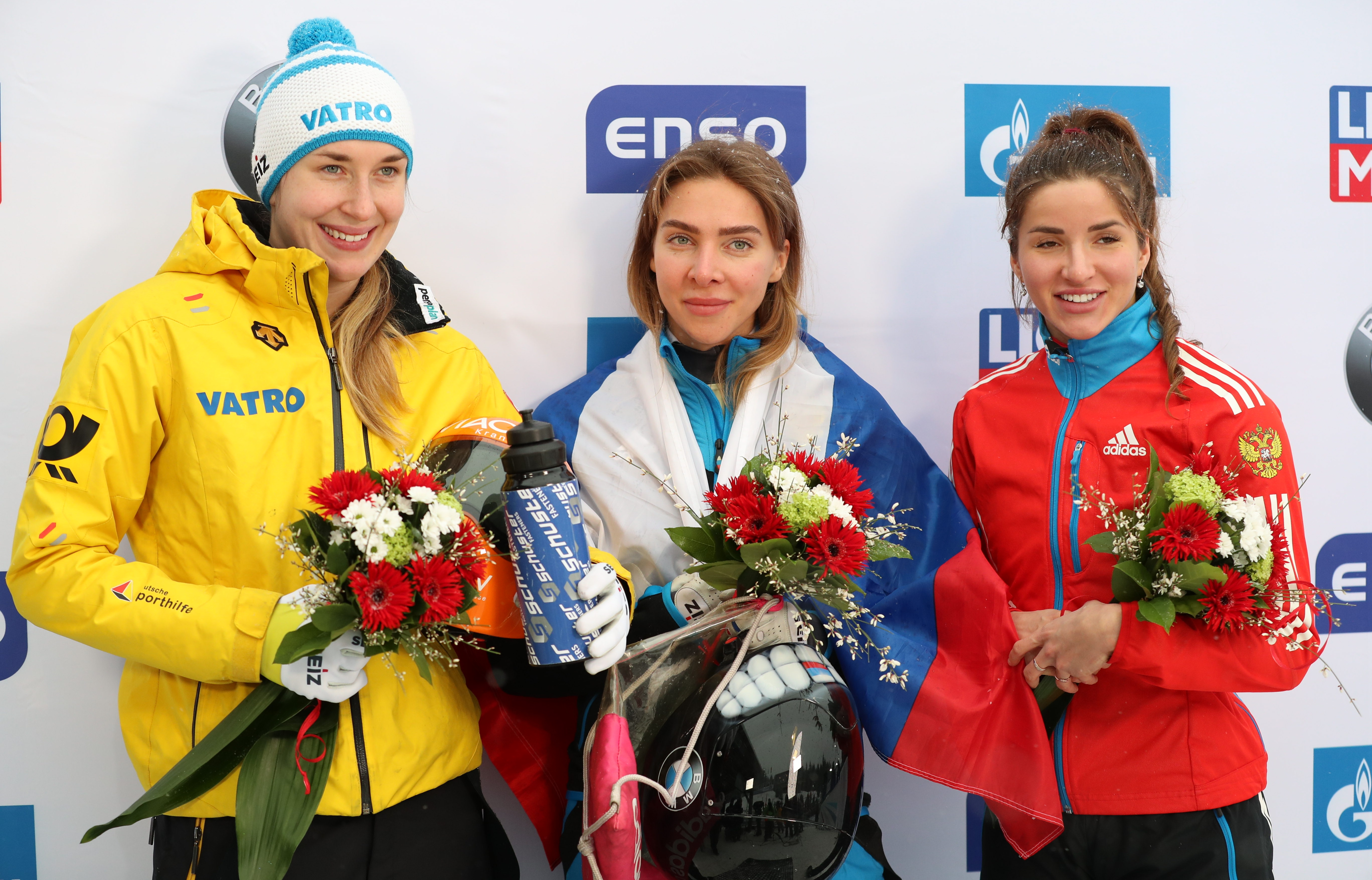 Women's World Cup race at the 2018/19 Skeleton World Cup in Altenberg